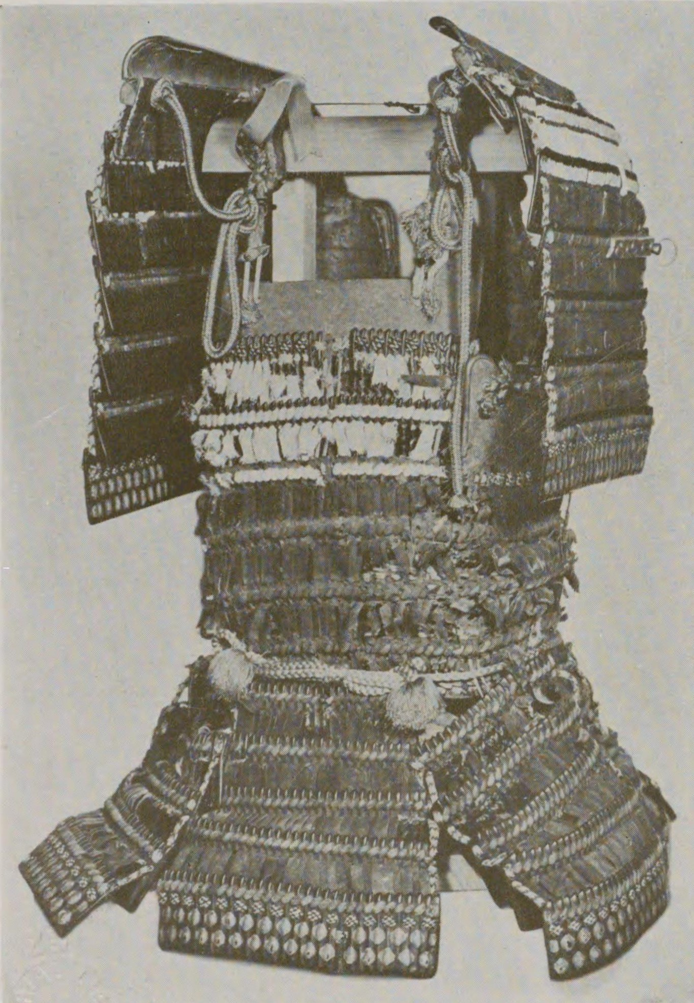 A haramaki made in Nambokucho period at National Museum of Japanese History, Sakura, Chiba prefecture. An Important Cultural Property of Japan. It is a ex-collection of Seison Maeda.